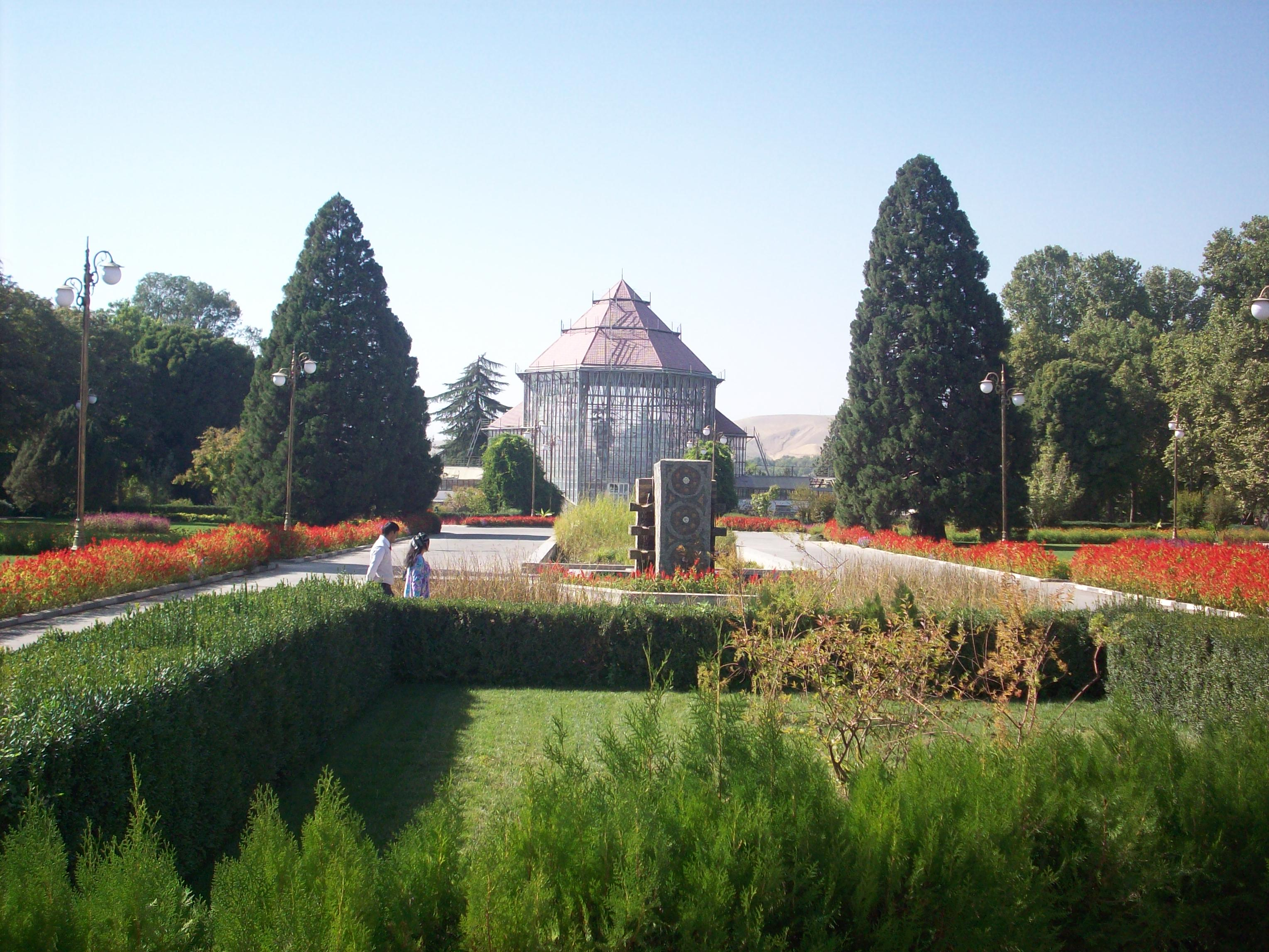 Botanical Garden in Dushanbe, Tajikistan